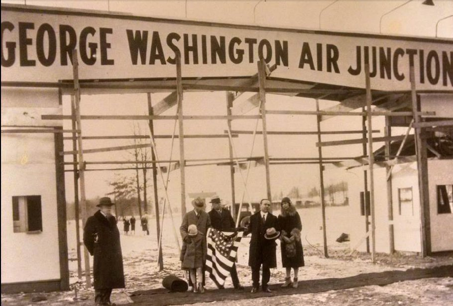 George Washington Air Junction entrance, picture taken by government employee.